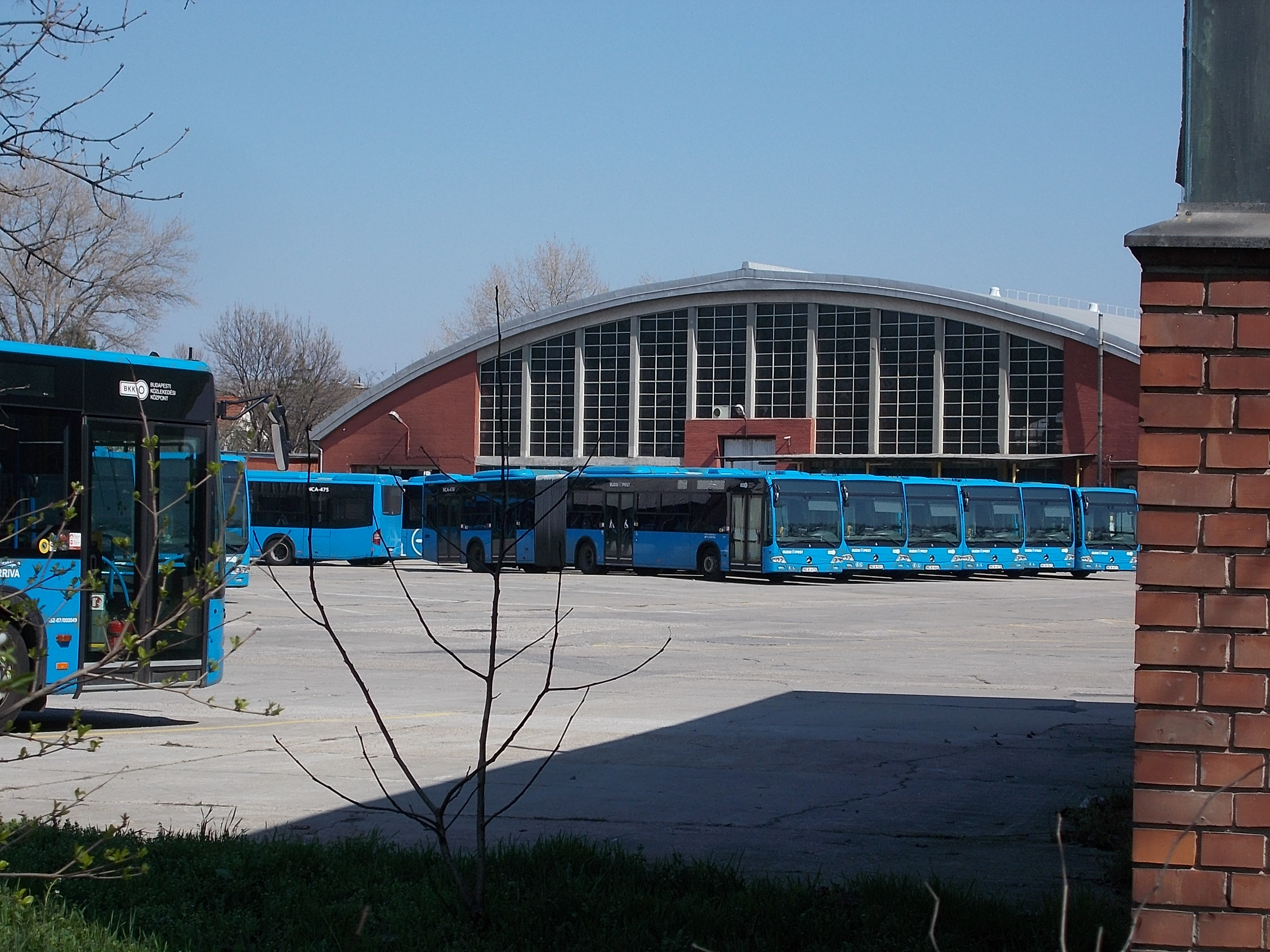 VT-Arriva site and bus depot from Than Károly street - Andor street, Kelenföld neighborhood, Újbuda.